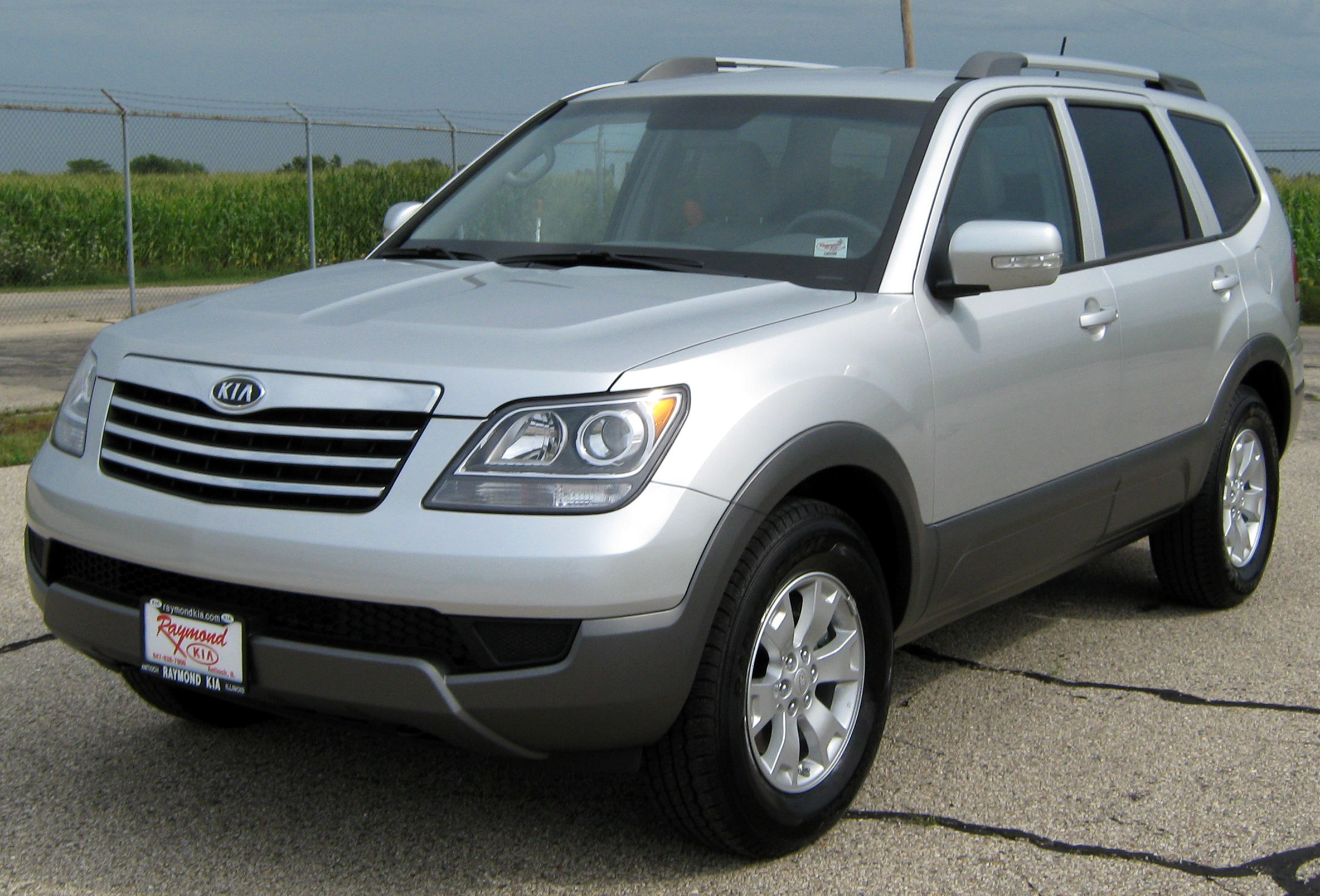 2009 Kia Borrego photographed in USA.